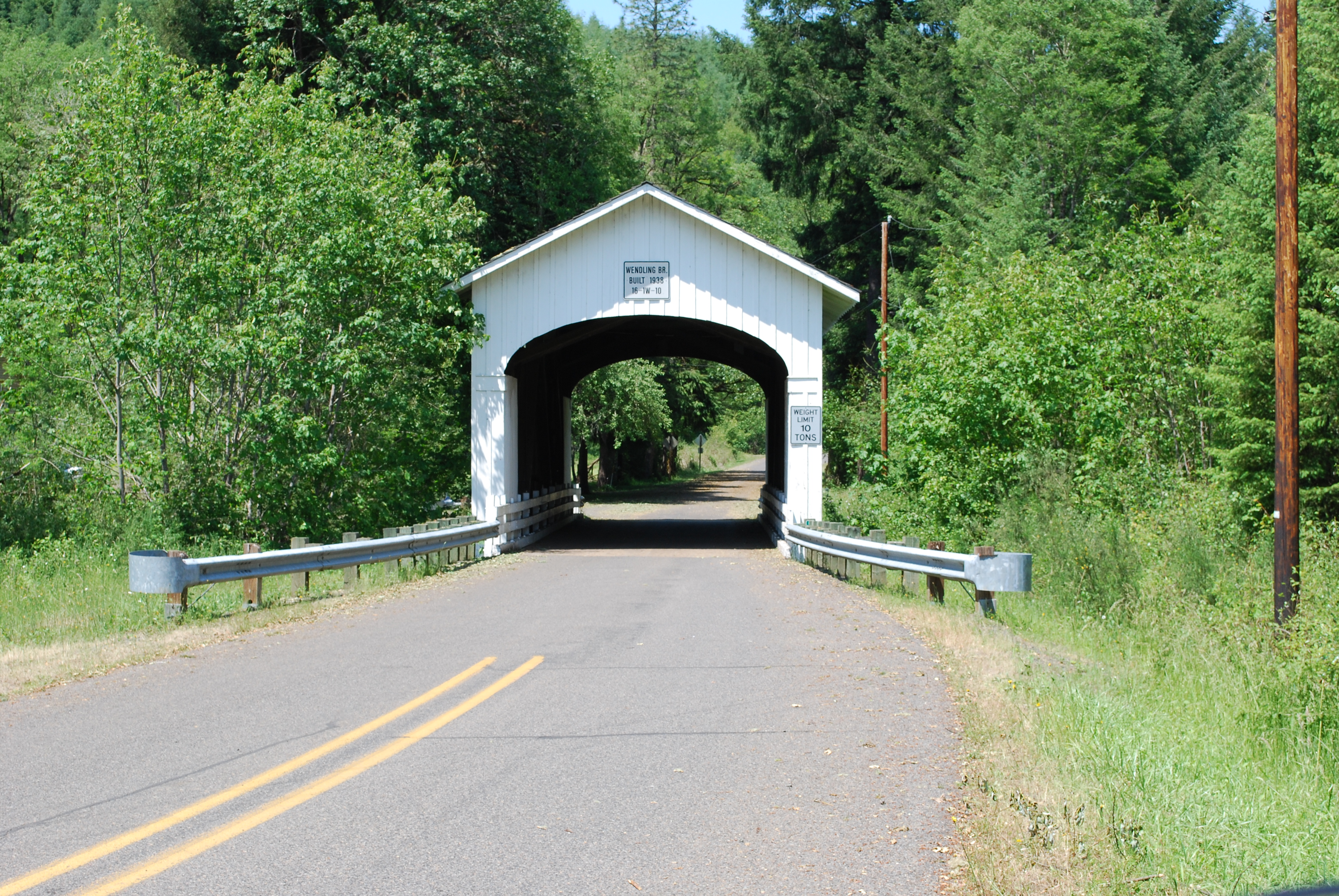 The Wendling Bridge (built 1938), located on Wendling Road near Walton, Oregon, United States, is listed on the US National Register of Historic Places (NRHP).NRHP reference number 79002095